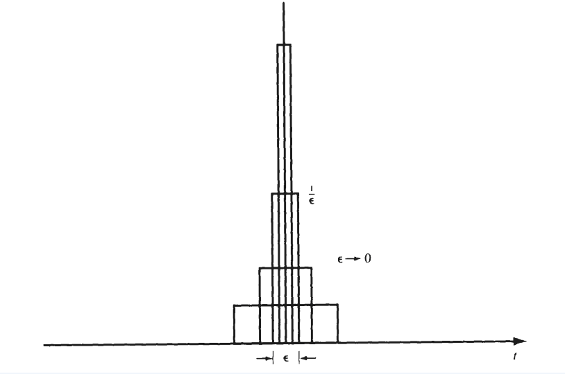 Figura 2.